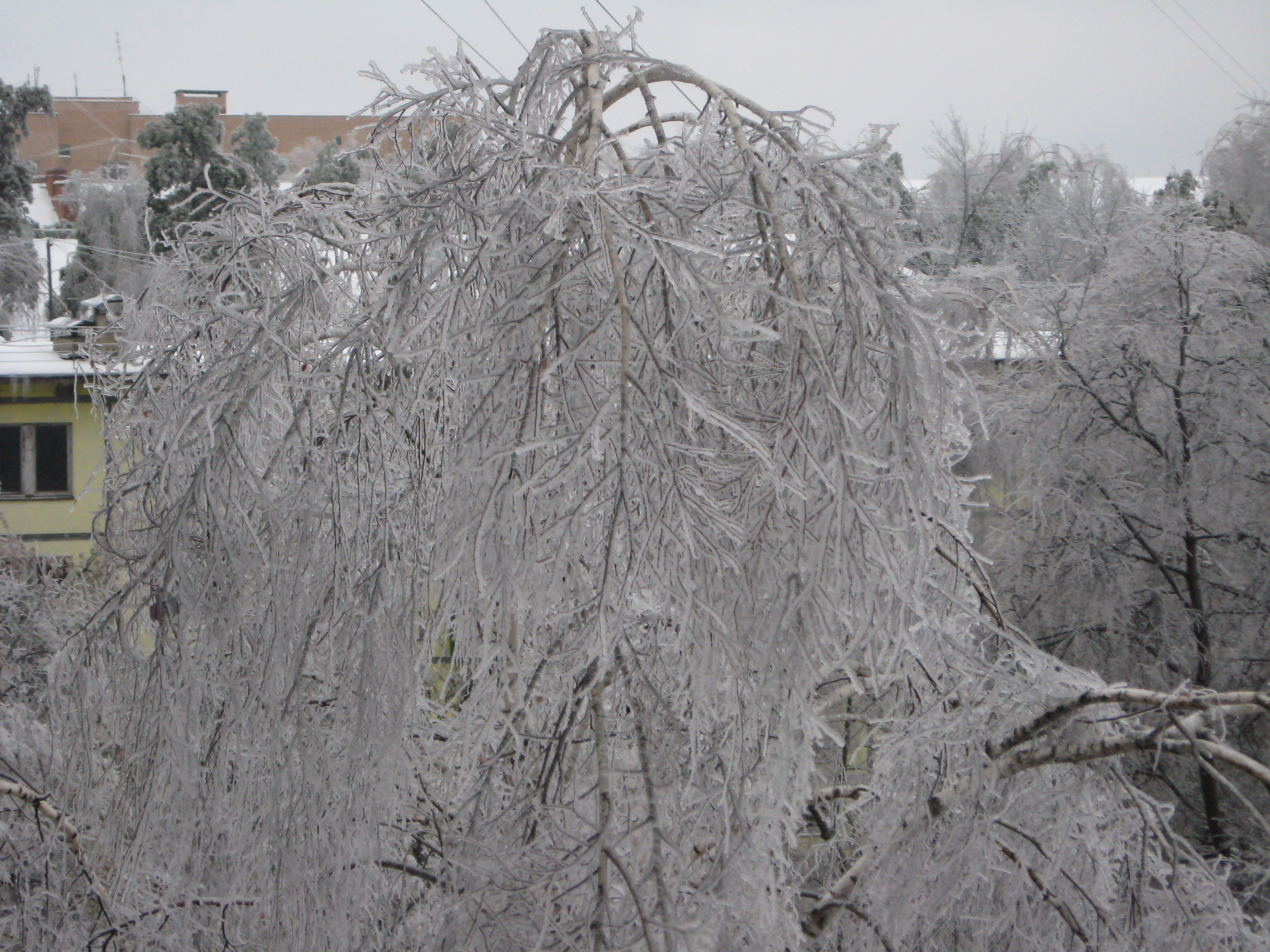 ice